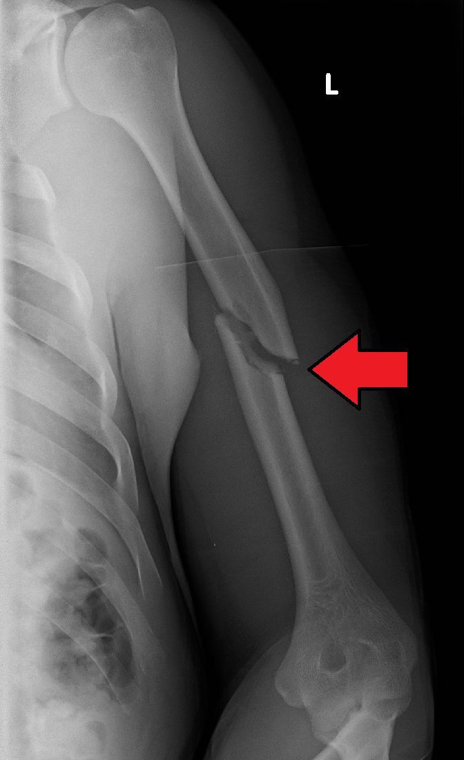 A midshaft fracture of the humerus